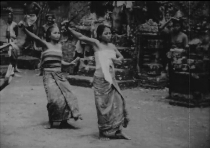 Still from pioneering anthropology documentary film Trance and Dance in Bali by Gregory Bateson and Margaret Mead, shot in the 1930s, released in 1952